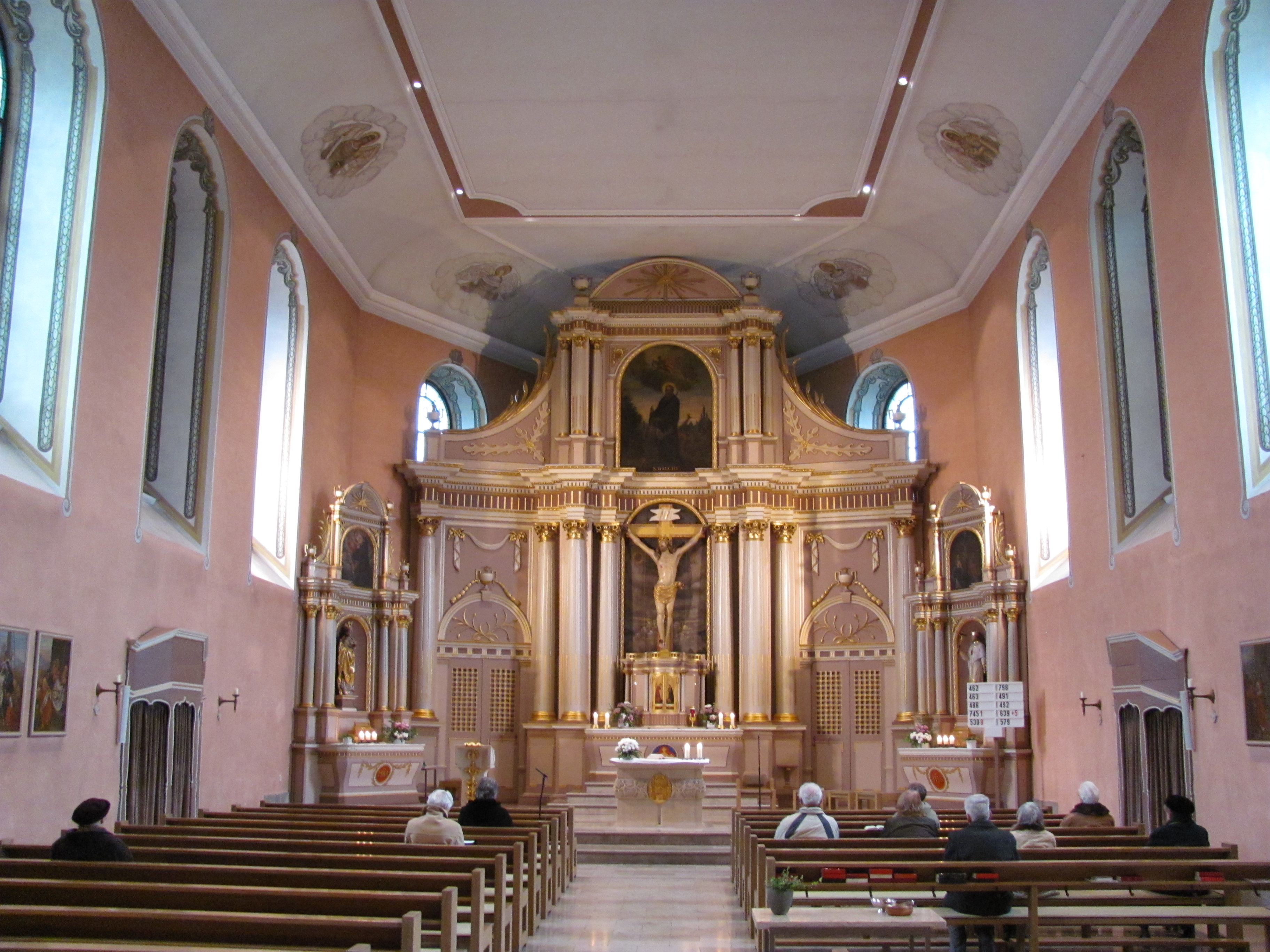 Saint Gallus Catholic Church, Bad Salzdetfurth-Detfurth, Lower Saxony, Germany